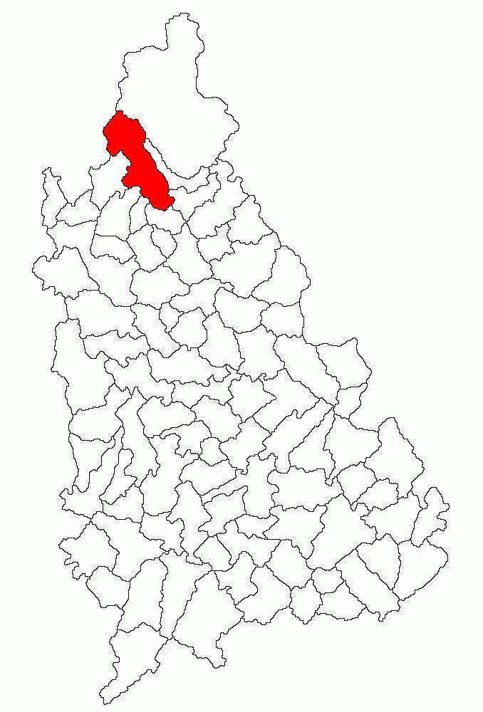 Location map of Runcu Commune in Dambovita County, Romania